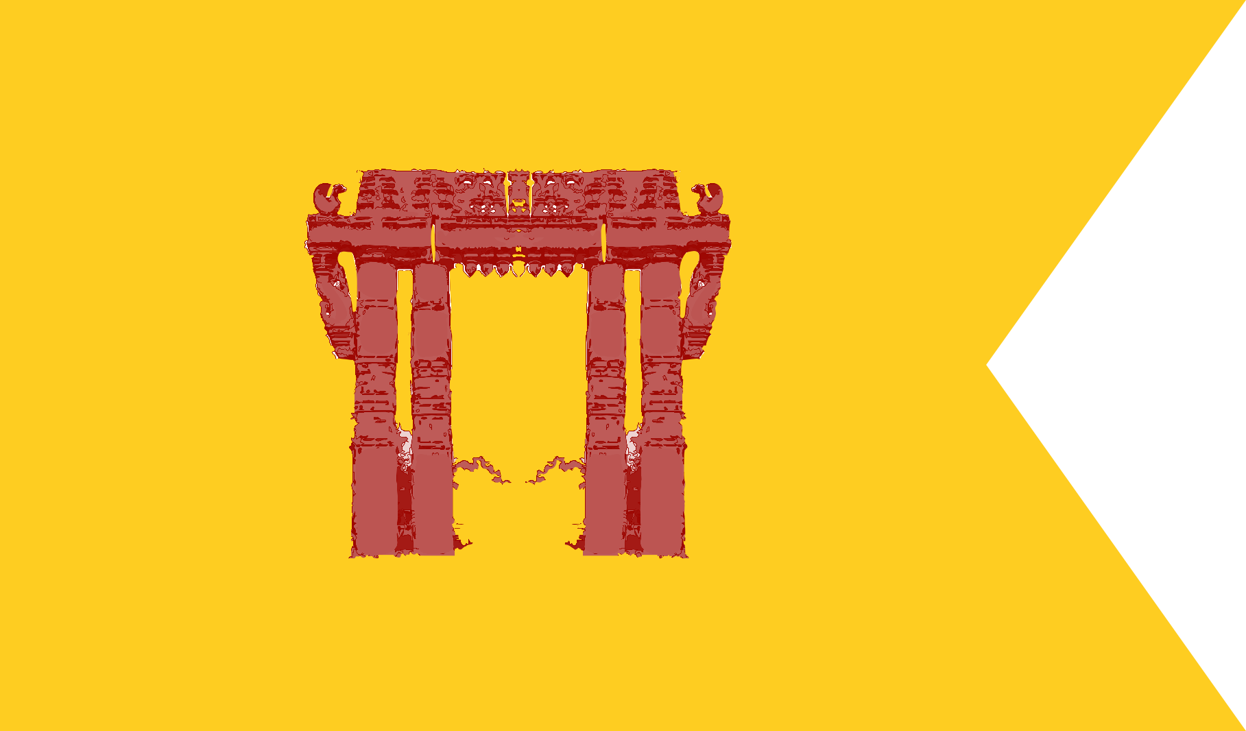 Flag of the Kakatiya empire. Unreferenced.